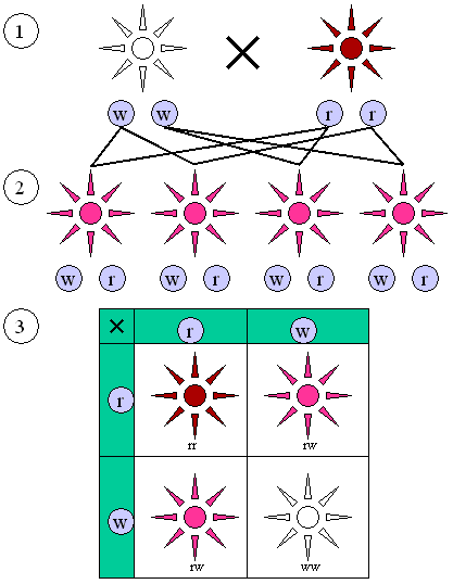 The color alleles of Mirabilis jalapa are not dominant or recessive. (1) Parental generation. (2) F1 generation. (3) F2 generation. The "red" and "white" allele together make a "pink" phenotype, resulting in a 1:2:1 ratio of red:pink:white in the F2 generation. Originally from Nupedia, by Magnus Manske 11:18, 10 January 2003 Magnus Manske 417x538 (4,884 bytes) (From :en:Nupedia )